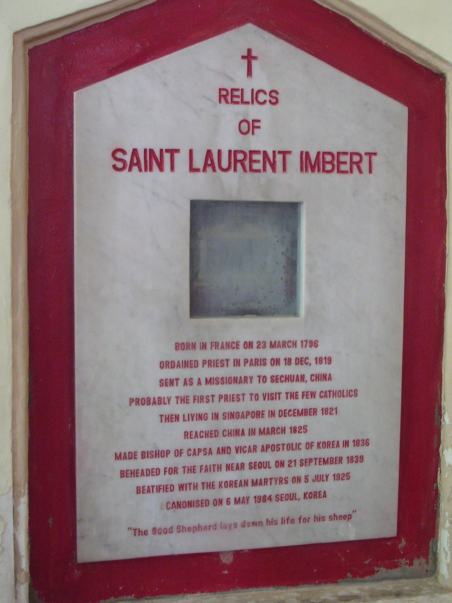 A plaque marking the relics of Saint Laurent-Joseph-Marius Imbert at the Cathedral of the Good Shepherd, Singapore.